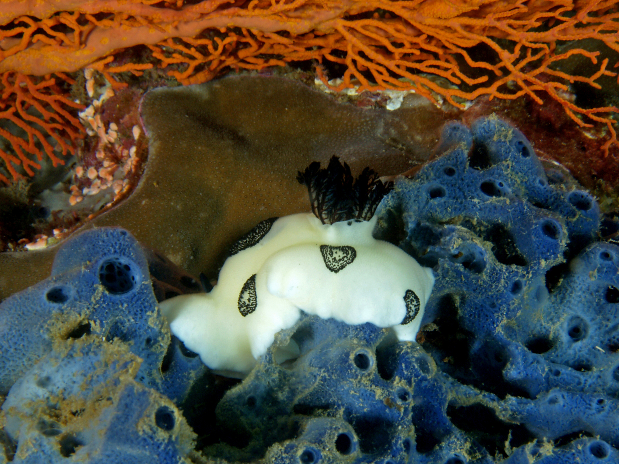 Jorunna funebris (Nudibranch) on Haliclona sp. (Sponges)